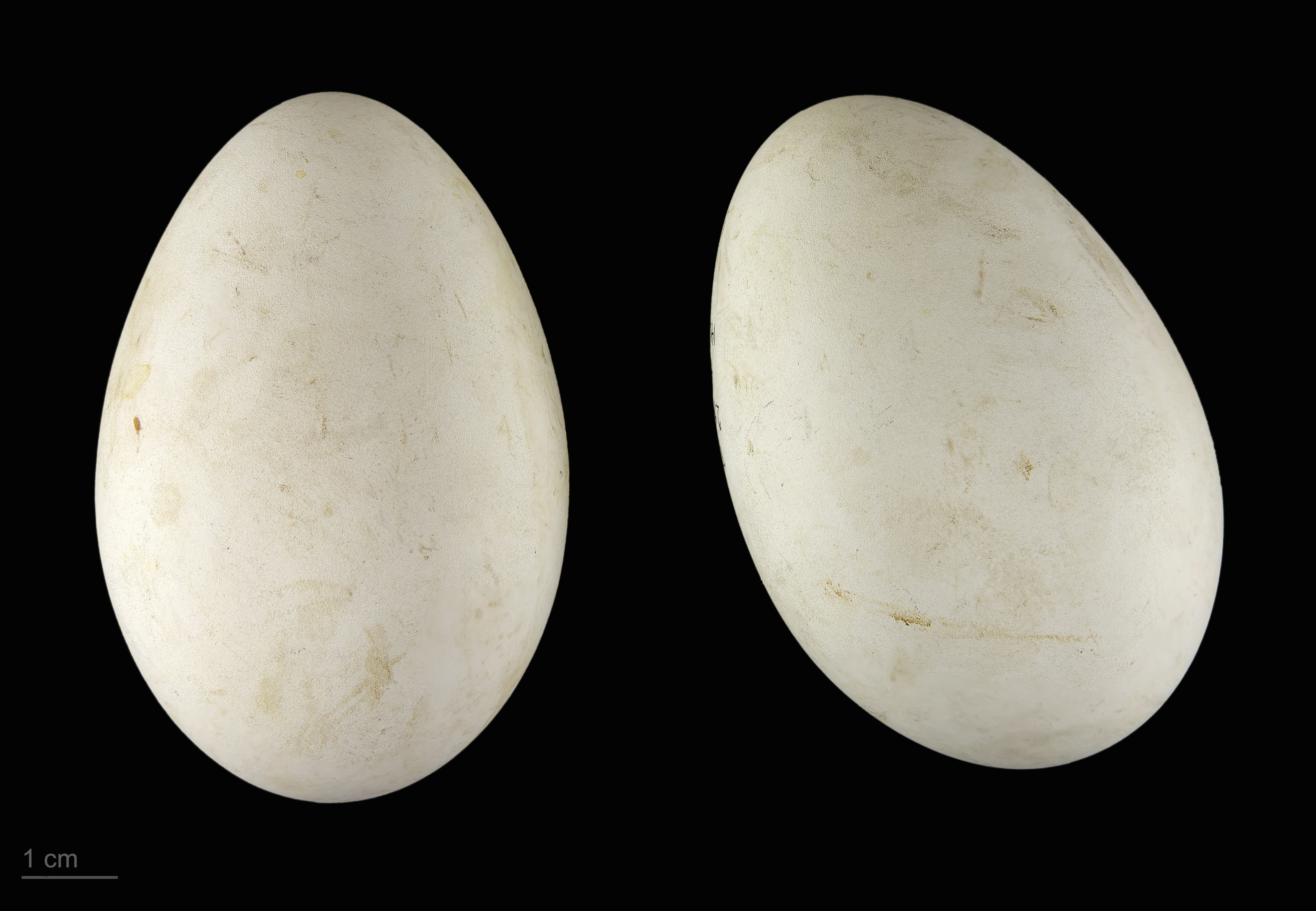 Eggs of yellow-billed stork Two specimens of the same spawn ; collection of Jacques Perrin de Brichambaut.